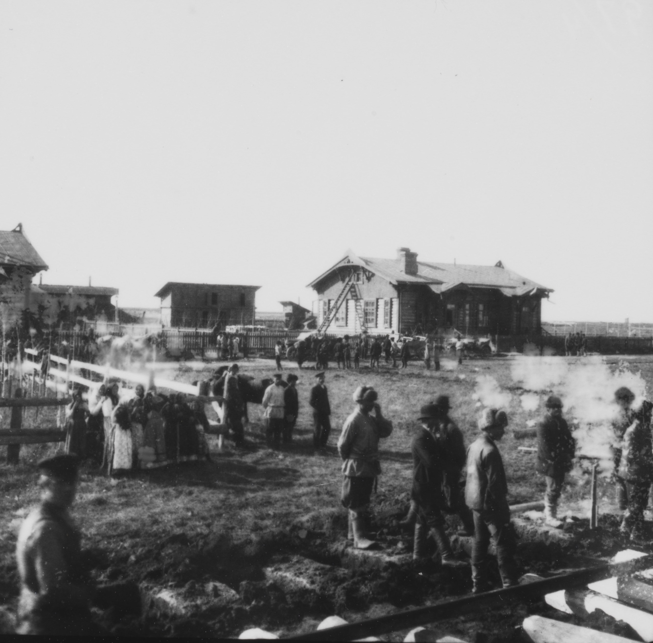 The railway station Nansenovka named in the honour of Nansen. In the foreground workers by the railroad tracks that are being laid down. Behind them, by the fence, a group of women in their national costumes. One of the pictures from the journey to Siberia between Aug. 2 and Oct. 26, 1913. Fridtjof Nansen continued his trans-Siberian journey by railroad, some of it recently finished, from Krasnoyarsk all the way to Vladivostok.